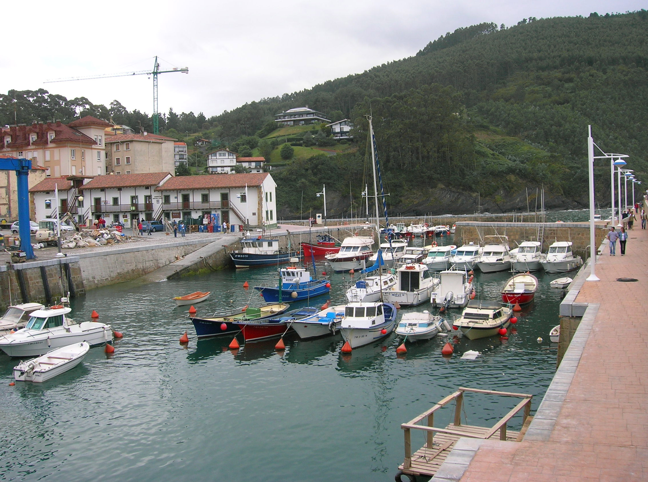 Armintza harbour, Lemoiz, Biscay, Spain.